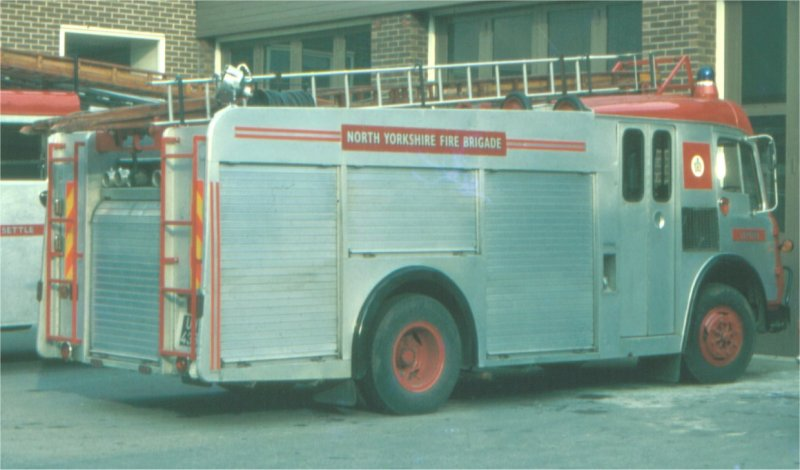 A North Yorkshire Fire Brigade pump engine, at North Allerton Fire Station.